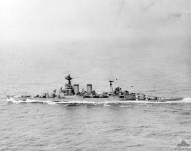 An aerial photo of HMS Hood taken from a RAF Coastal Command Hudson aircraft on 24 May 1941. The battlecruiser was sunk later that day during the Battle of the Denmark Strait.